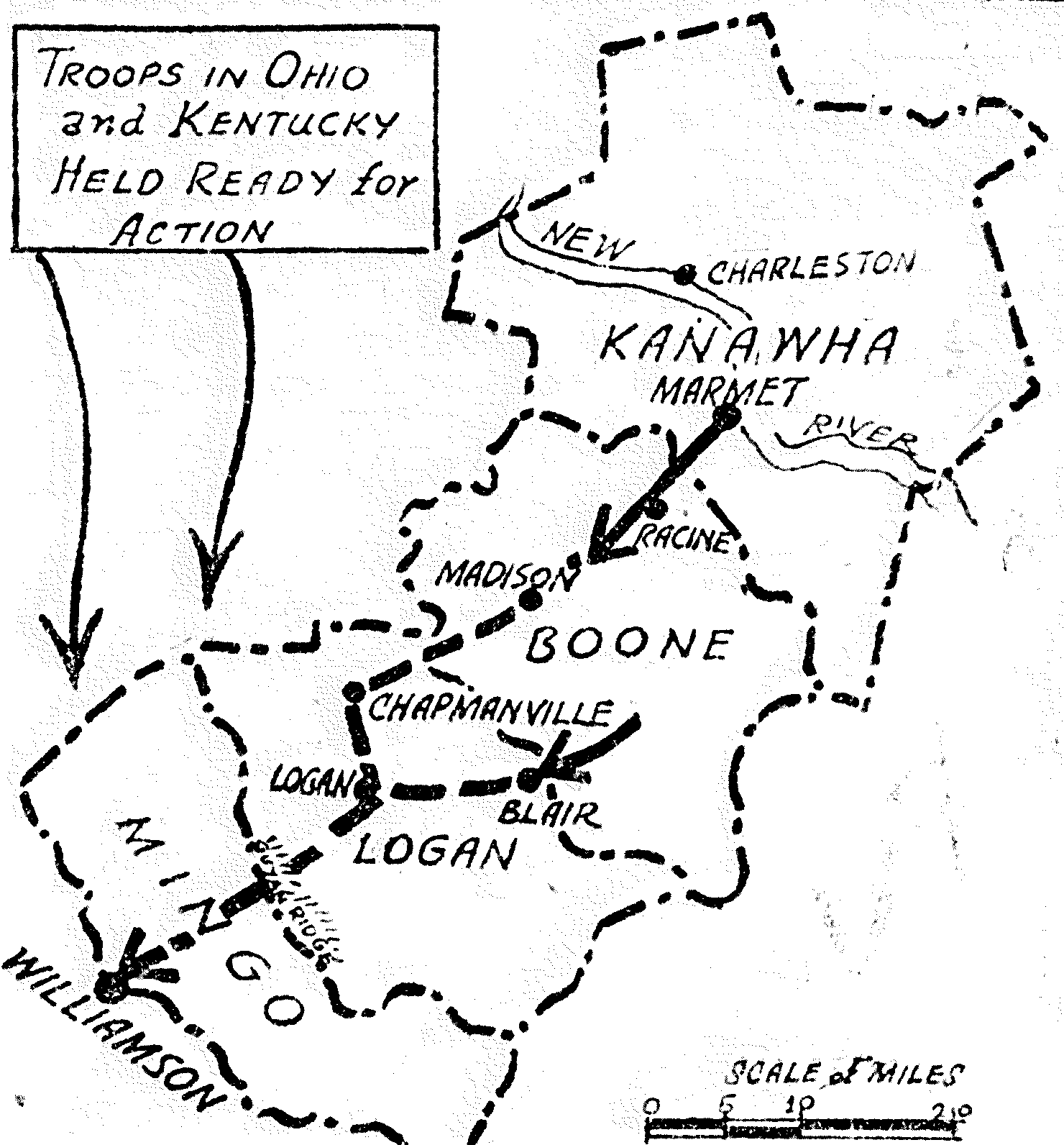 Map of the movement of the union miners from Marmet to Williamson during the Battle of Blair Mountain in 1921.